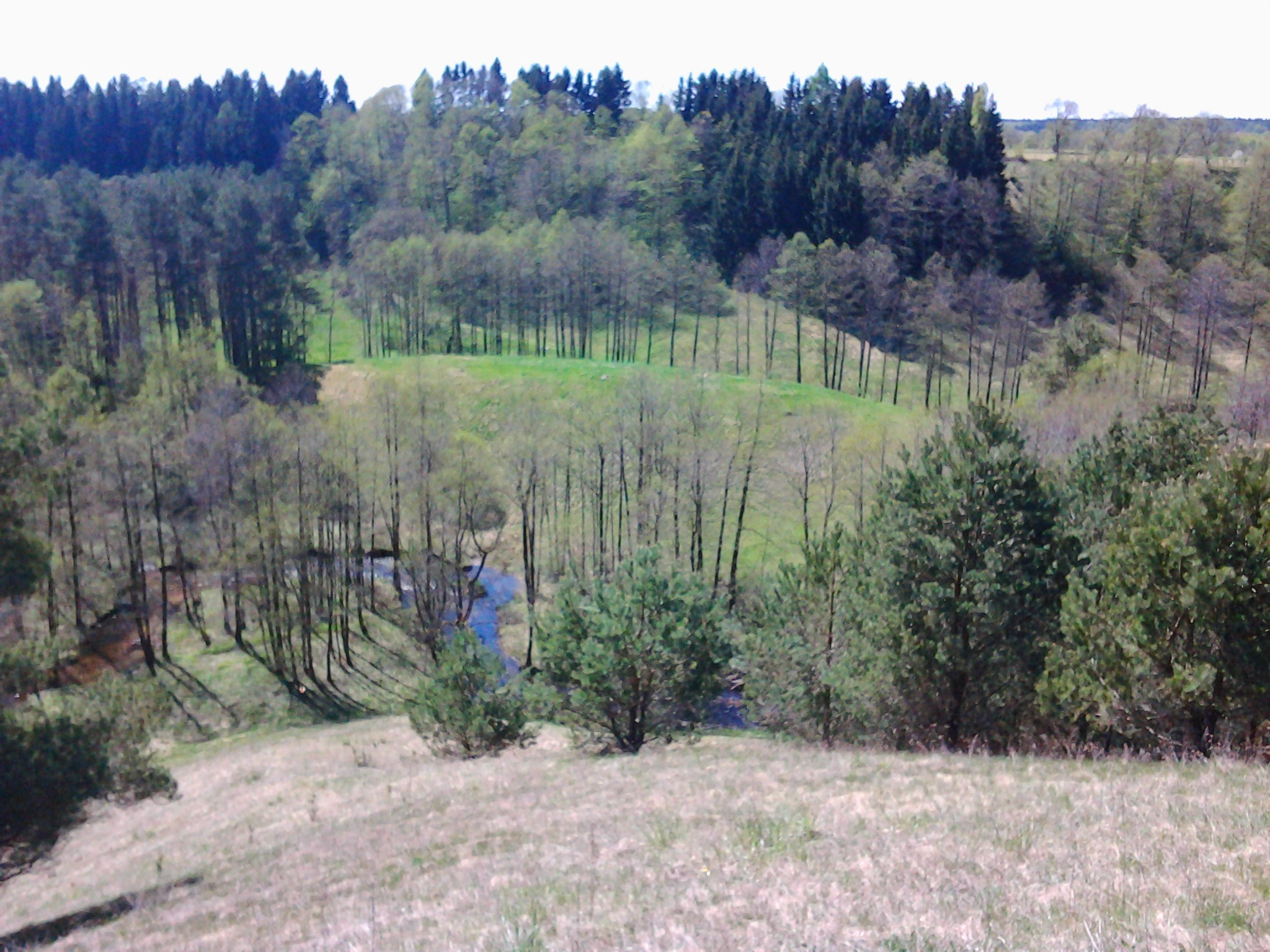 Czarna Hańcza an Turtul Esker, Poland